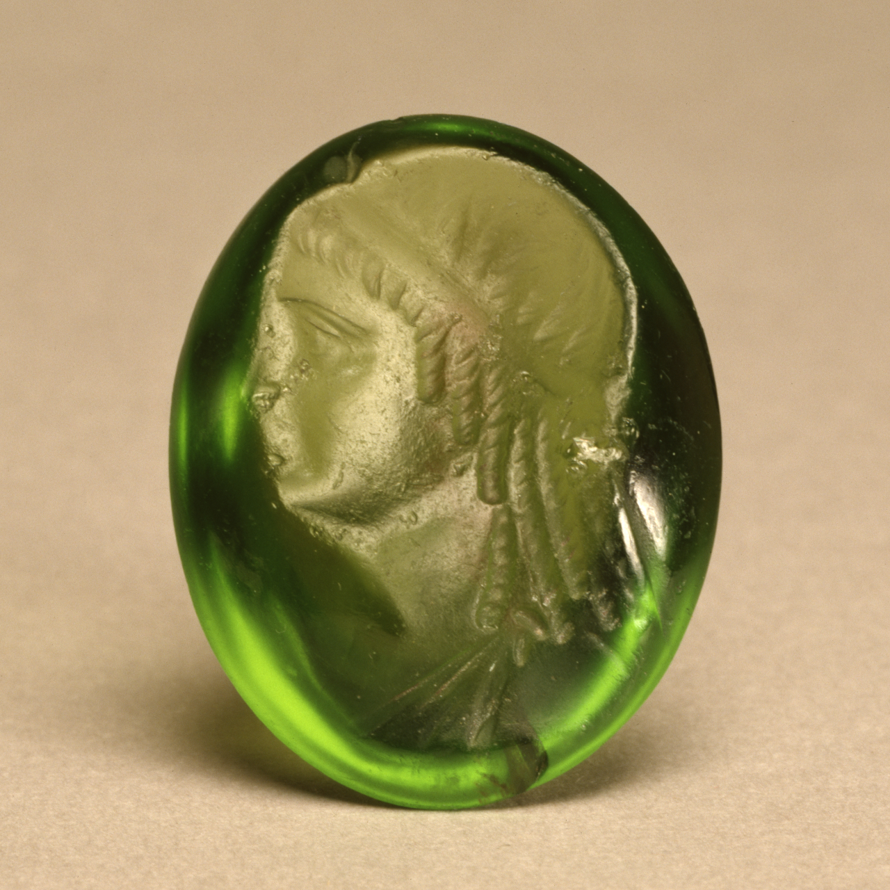 This piece is carved in intaglio and is convex on both sides.